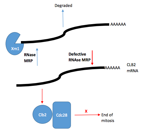 RNA MRP Regulation of Cell Cycle through Clb mRNA levels